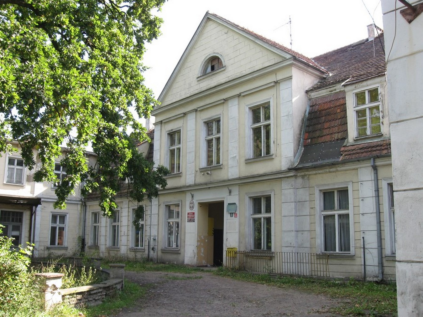 Manor in Rusocin